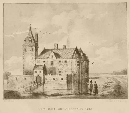 Castle Grunsfoort in the year 1638